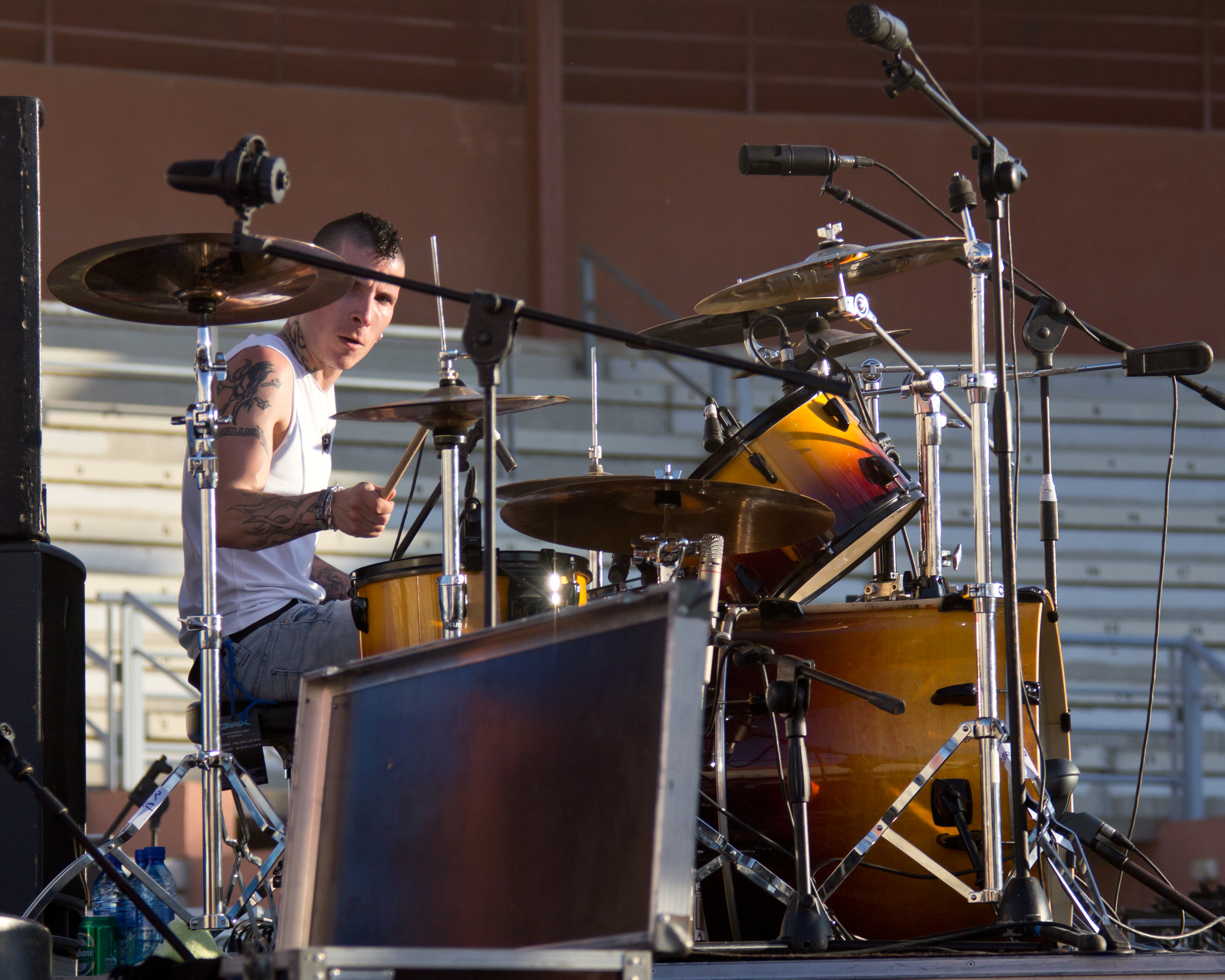 Spanish metal band Crisix at Asaco Metal Fest 2013, Parla, Spain.